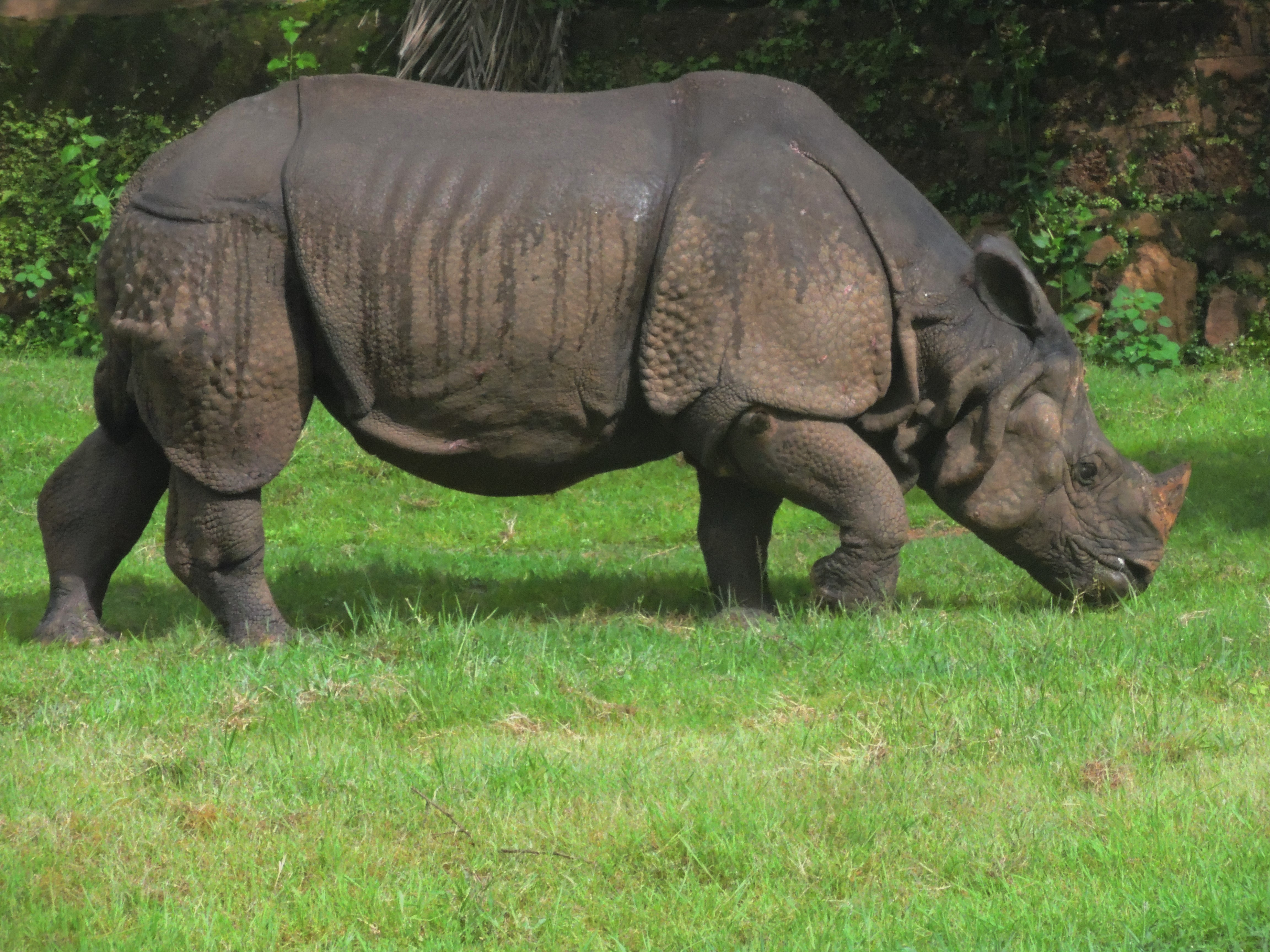 hooooooppppppiiiii